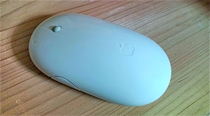 Wireless Mighty Mouse Picture